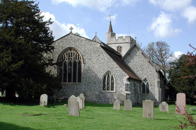 St James, Sheldwich, Kent